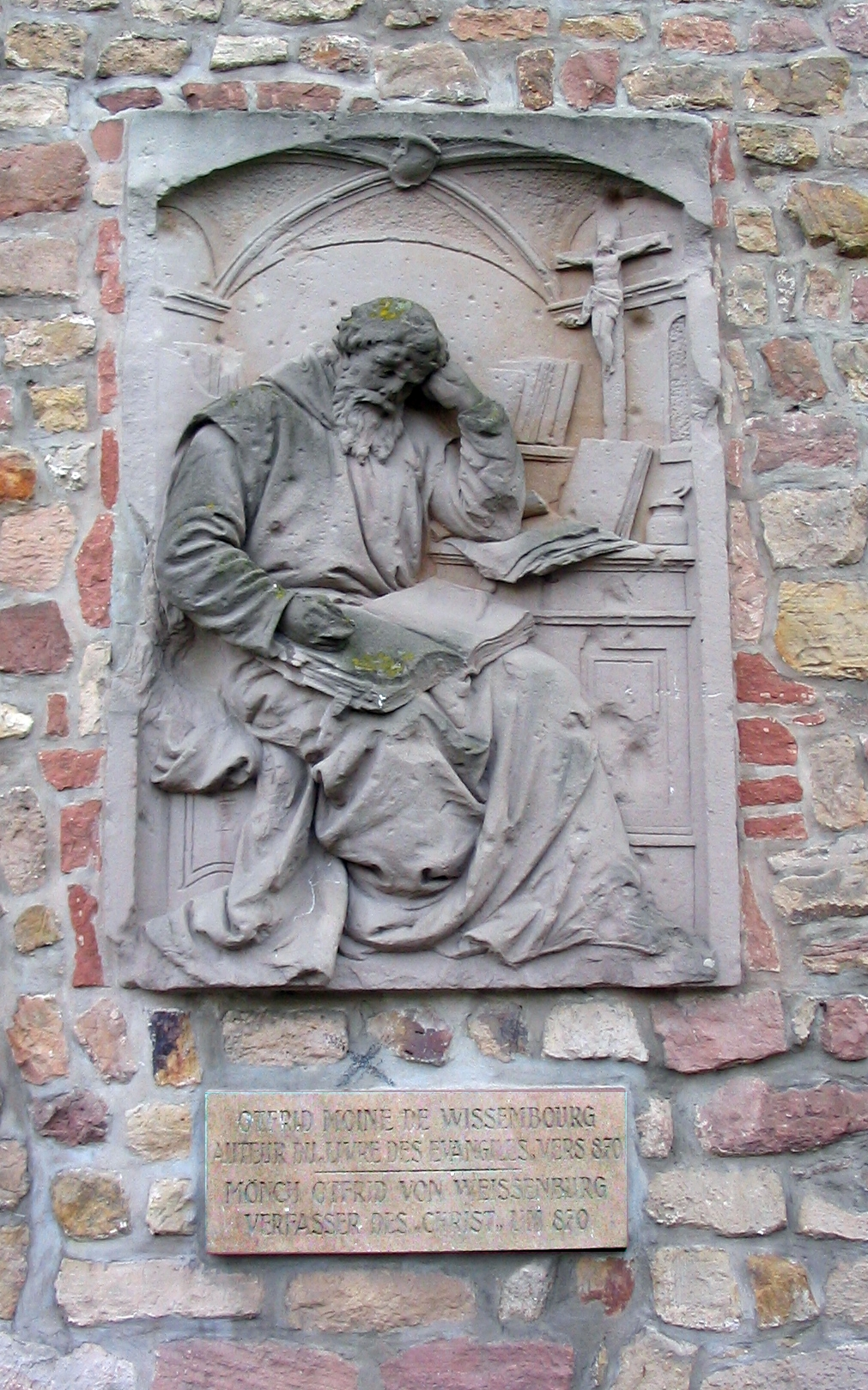 Otfrid memorial in Wissembourg. Otfrid of Weissenburg (German: Otfrid von Weißenburg) (c. 800 - after 870) was a monk at Weissenburg (modern-day Wissembourg in Alsace) and the author of a gospel harmony in rhyming couplets now called the Evangelienbuch. The relief is located on the side wall of La Grange aux Dîmes, on the corner of the Place du Saumon in Wissembourg.